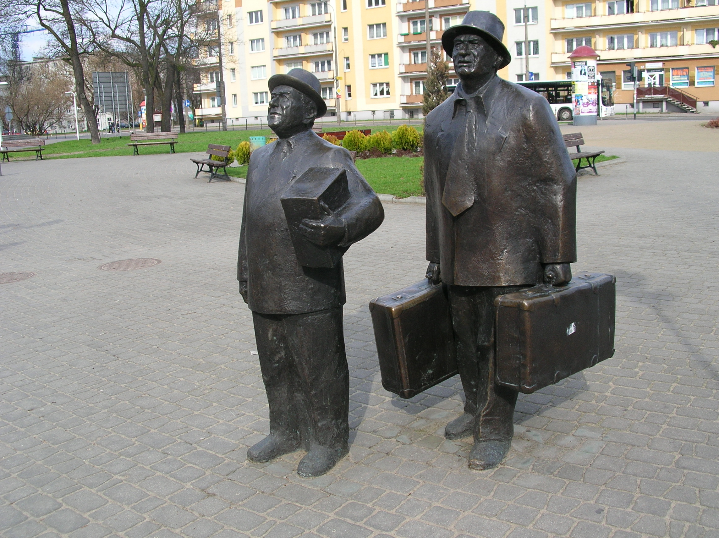 Monument of Pawlak and Kargul in Toruń